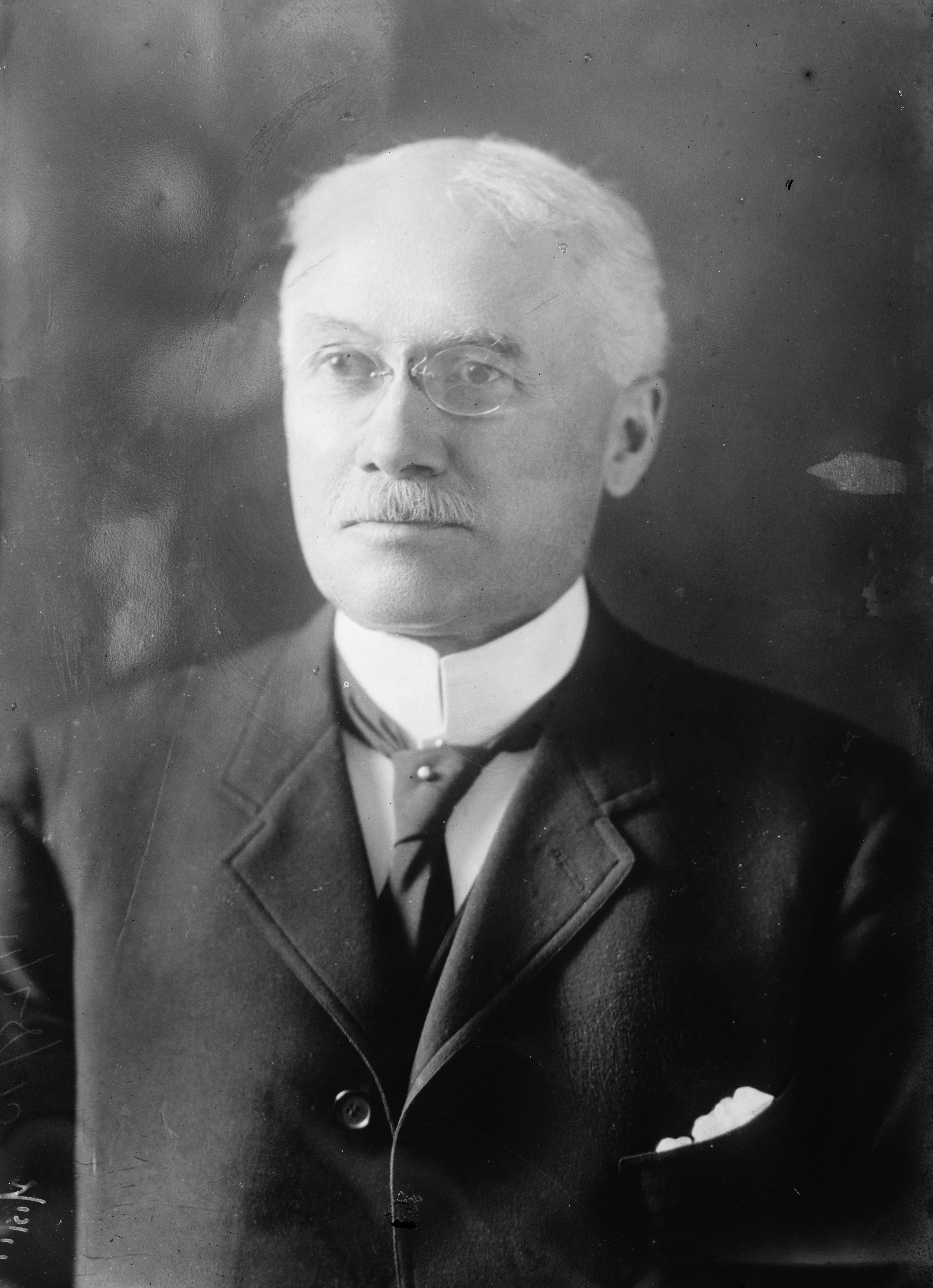 Title: Sir Hugh Graham Abstract/medium: 1 negative : glass ; 5 x 7 in. or smaller.